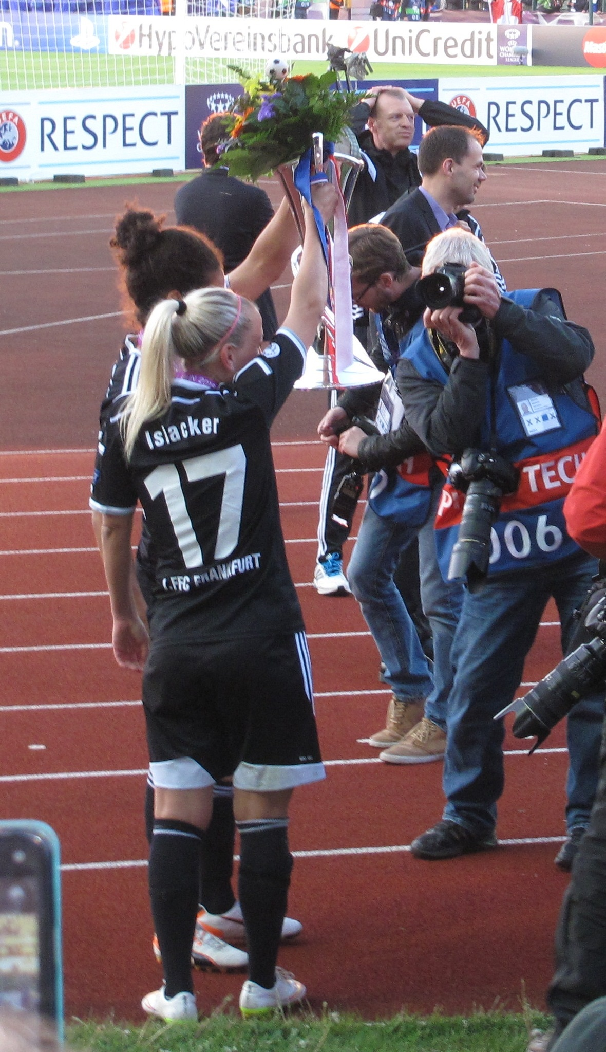 2015 UEFA Women's Champions League Final at Friedrich-Ludwig-Jahn-Sportpark in Berlin on 14 May 2015. 1. FFC Frankfurt won the match against Paris Saint-Germain 2–1.